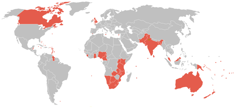 Highlighted in red are the countries expected to participate in the 2010 Commonwealth Games, derived from blank world map. Red = Countries participating Highlighted square is host city (Delhi)